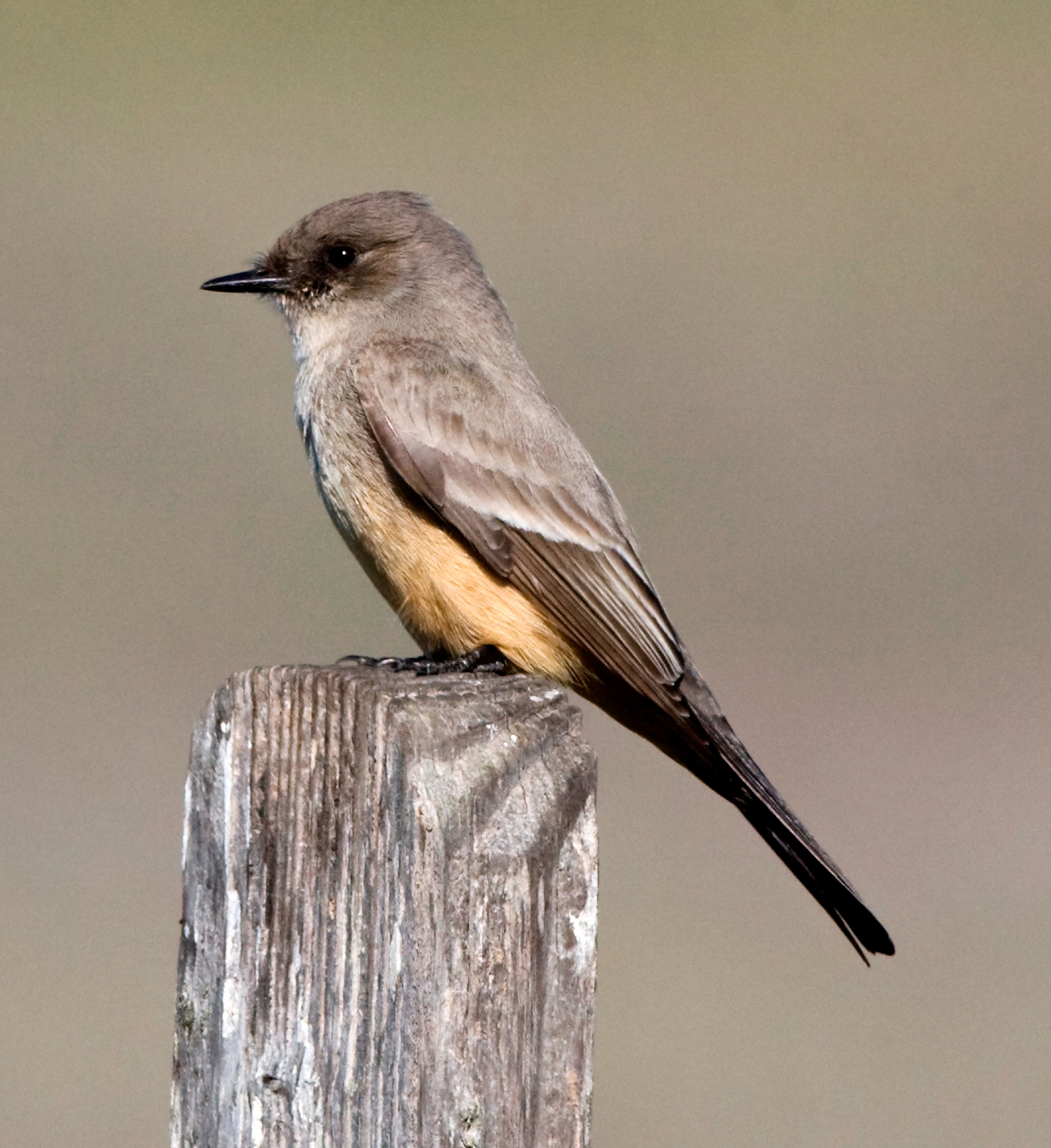 Side profile of a Say's Phoebe (Sayornis saya) up close and on a post. 1D mark III w/500mm f/4L IS from the van.